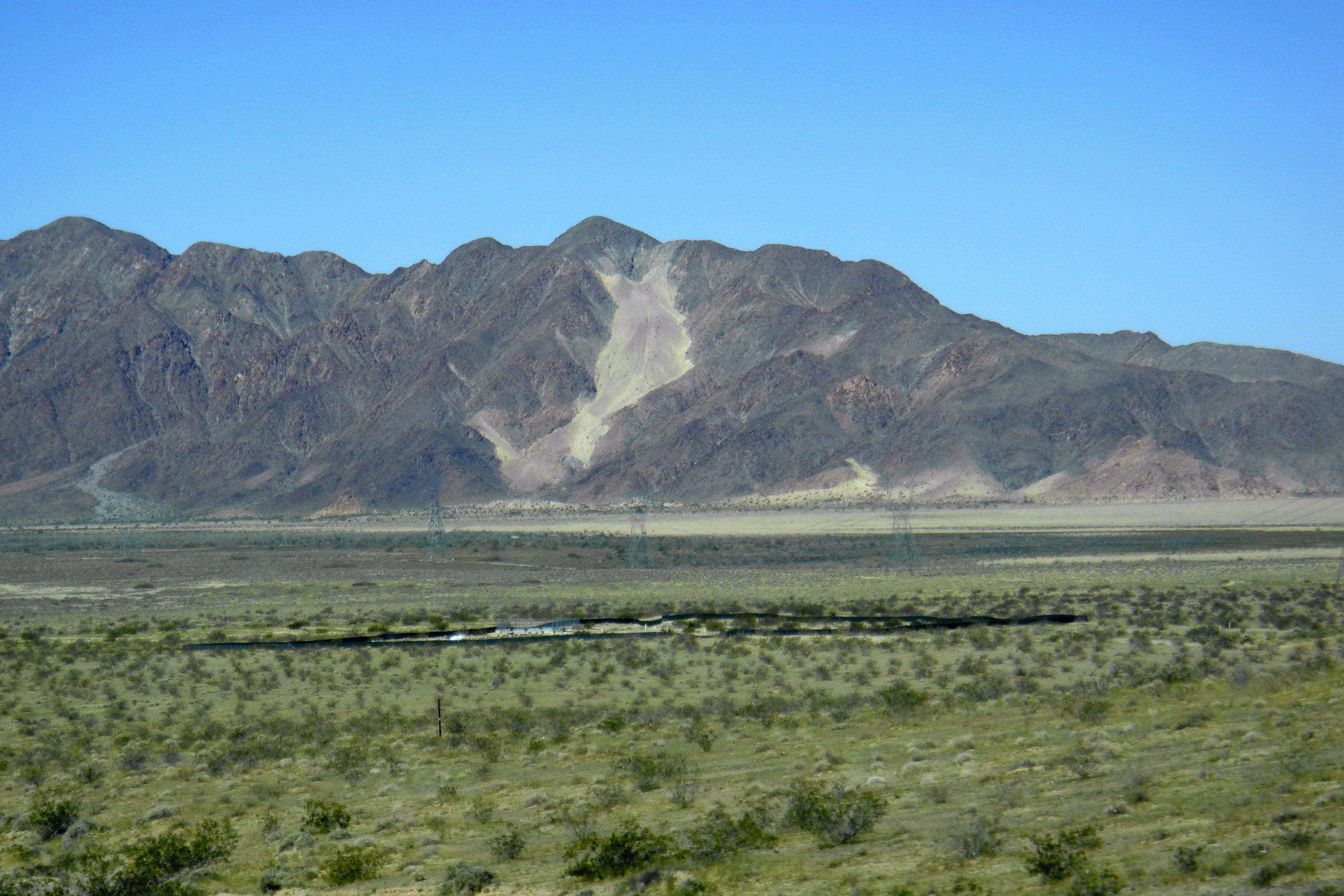 The Cat Dune sand ramp — near Baker in the Cronese Mountains, Eastern Mojave Desert, San Bernardino County, southeastern California.